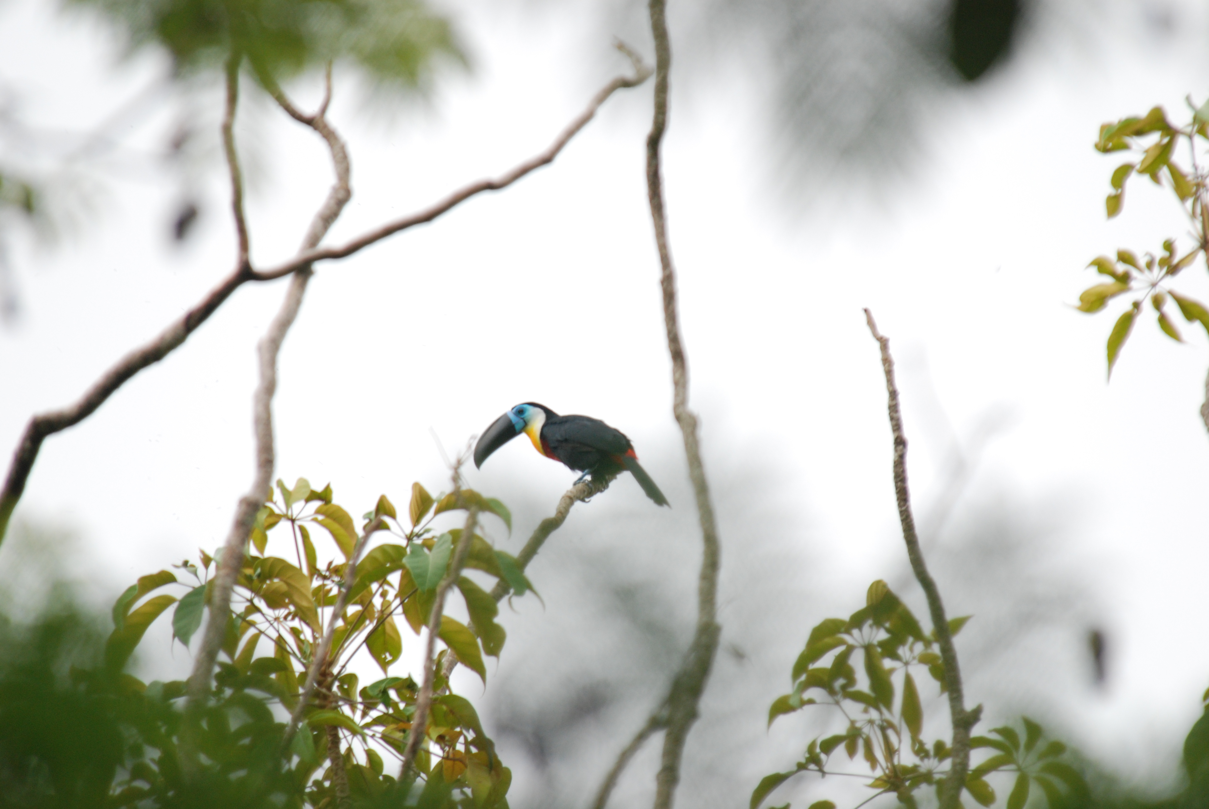 While I was walking on the trail at Asa Wright I heard what sounded like the call of a puppy dog. I looked up and it was the Channel-billed Toucan (Ramphastos vitellinus), fairly high up in the trees. Other birds will get nervous when toucans get near their nests as they are known to take nestlings as food.